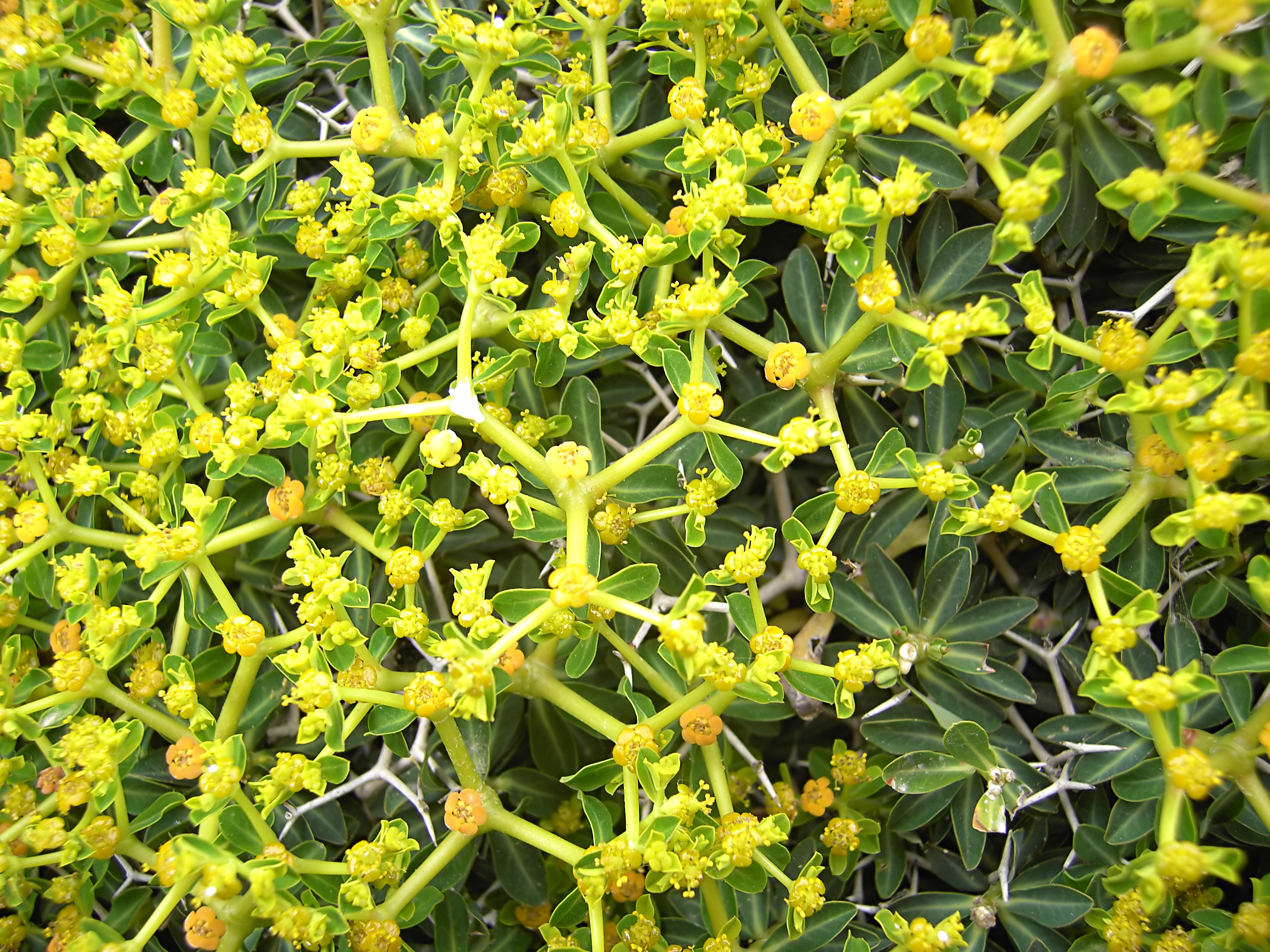 Greek Spiny Spurge, Crete